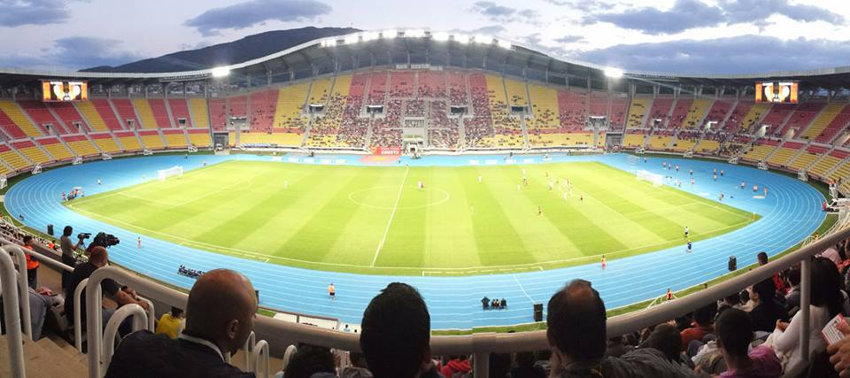 View from the south stand at the Philip II Arena.